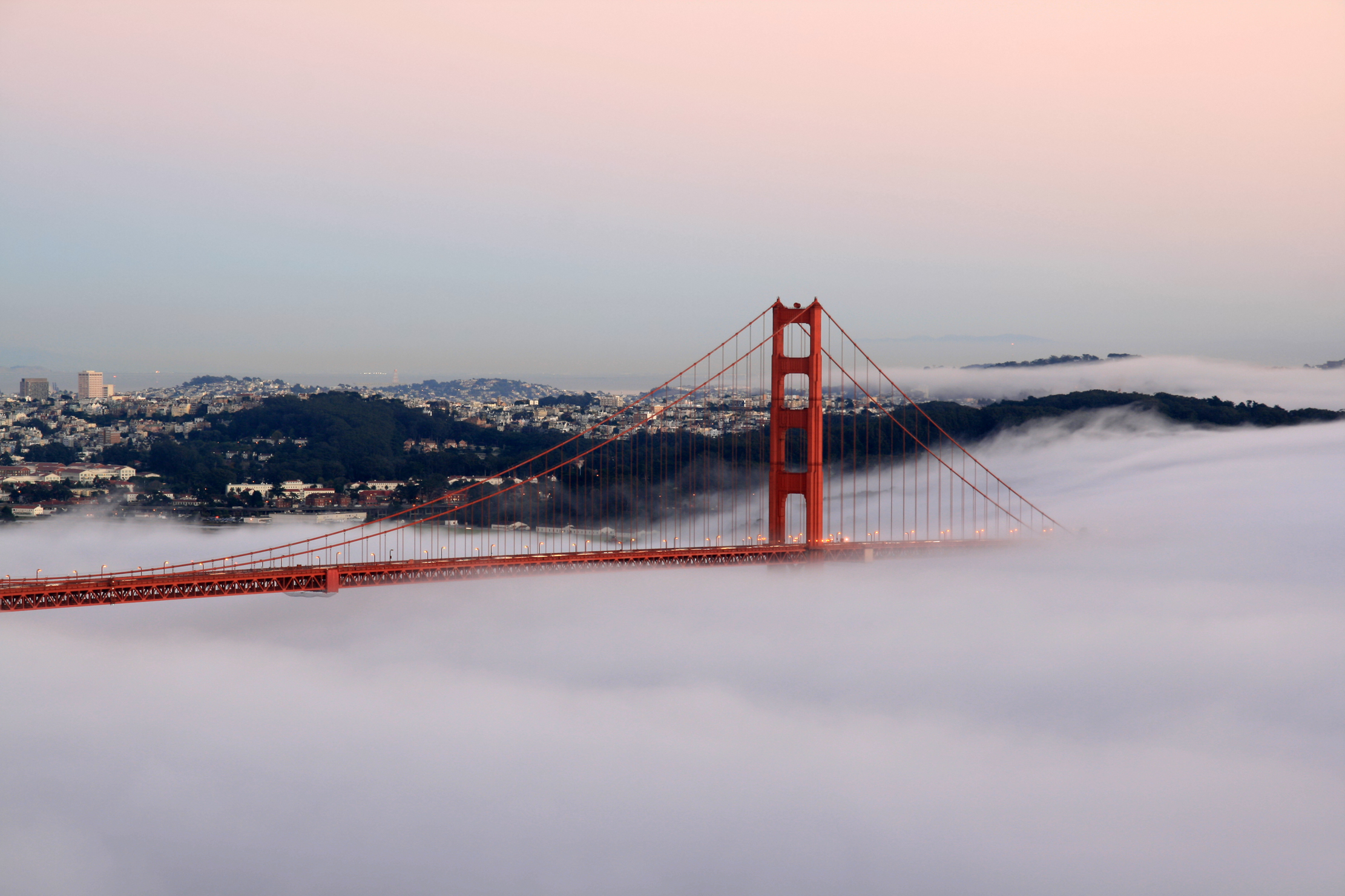 Golden Gate Bridge (San Francisco, CA, USA) at sunset and coverd by fog.